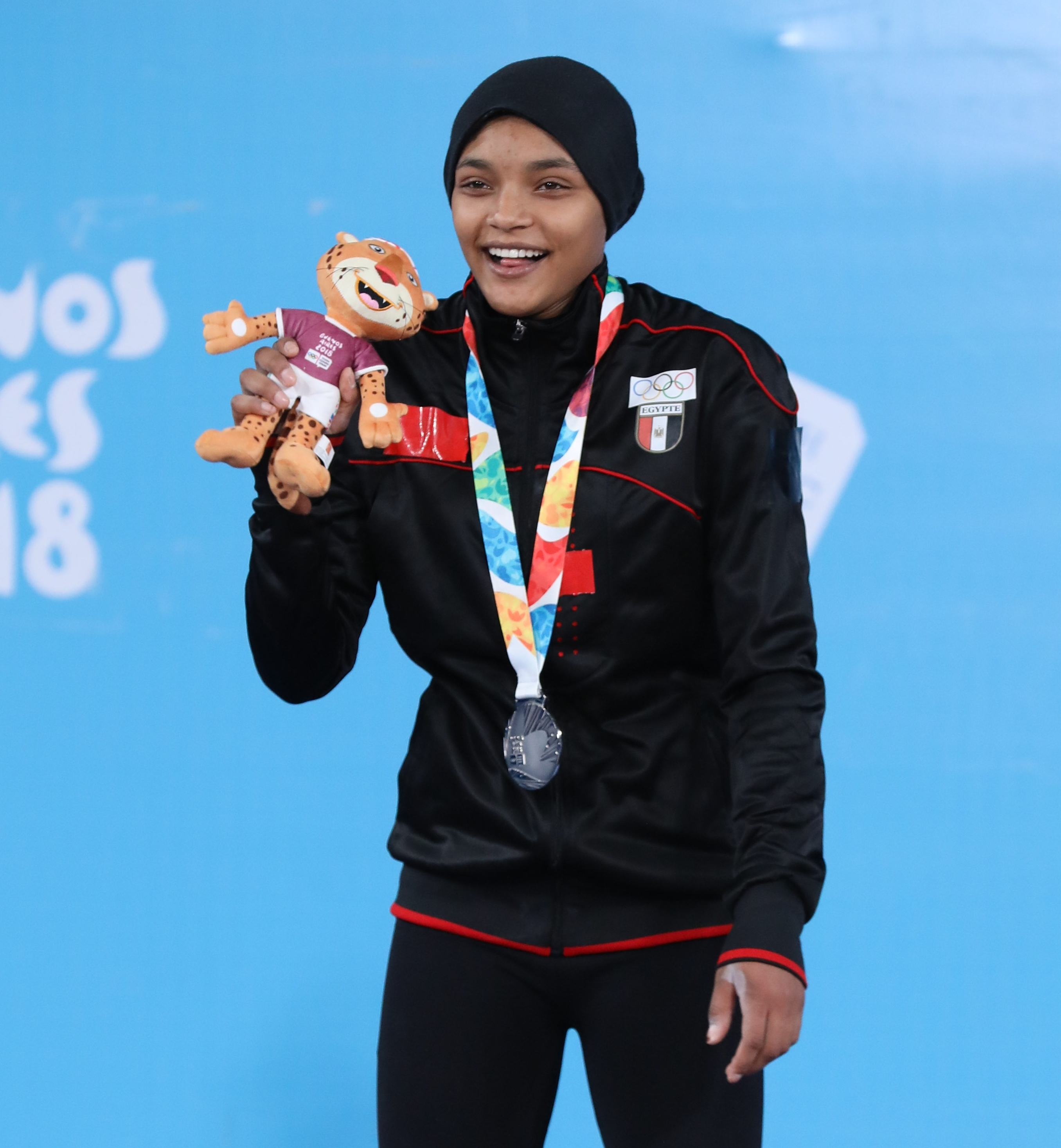 Weightlifting female, 58 kg: Victory ceremony